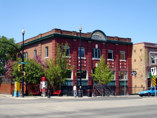 Farnam Block heritage building (1912-2015) on Broadway Avenue, in Saskatoon, Saskatchewan, Canada.